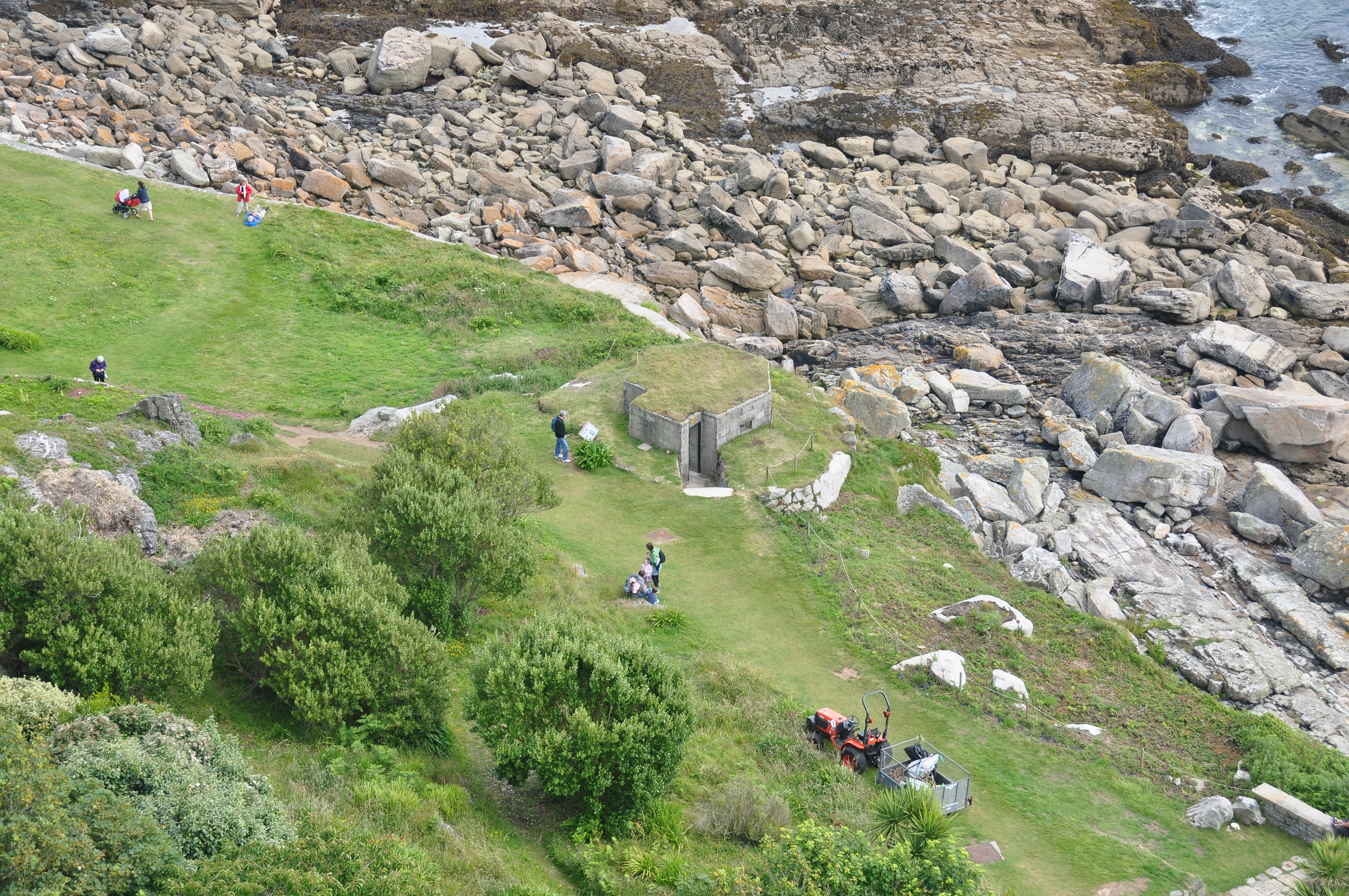 Pillbox on St Michael's Mount